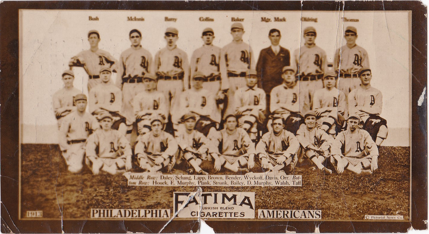 This is a rare Philadelphia Americans card from the 1913 Fatima baseball card series issued by Liggett & Myers Tobacco Company. The individuals included on the card are manager Connie Mack and players Chief Bender, Boardwalk Brown, Joe Bush, Byron Houck, Eddie Plank, John Taff, Weldon Wyckoff, Jack Lapp, Wally Schang, Ira Thomas, Frank Baker, Jack Barry, Eddie Collins, Harry Davis, Stuffy McInnis, Billy Orr, Tom Daley, Danny Murphy, Eddie Murphy, Rube Oldring, Amos Strunk, Bailey, and Jimmy Walsh. The card measures 4 3/4 x 2 3/4 inches. The card has several creases and is torn at the bottom center. This item is from my personal collection. I purchased it in the 1980s.